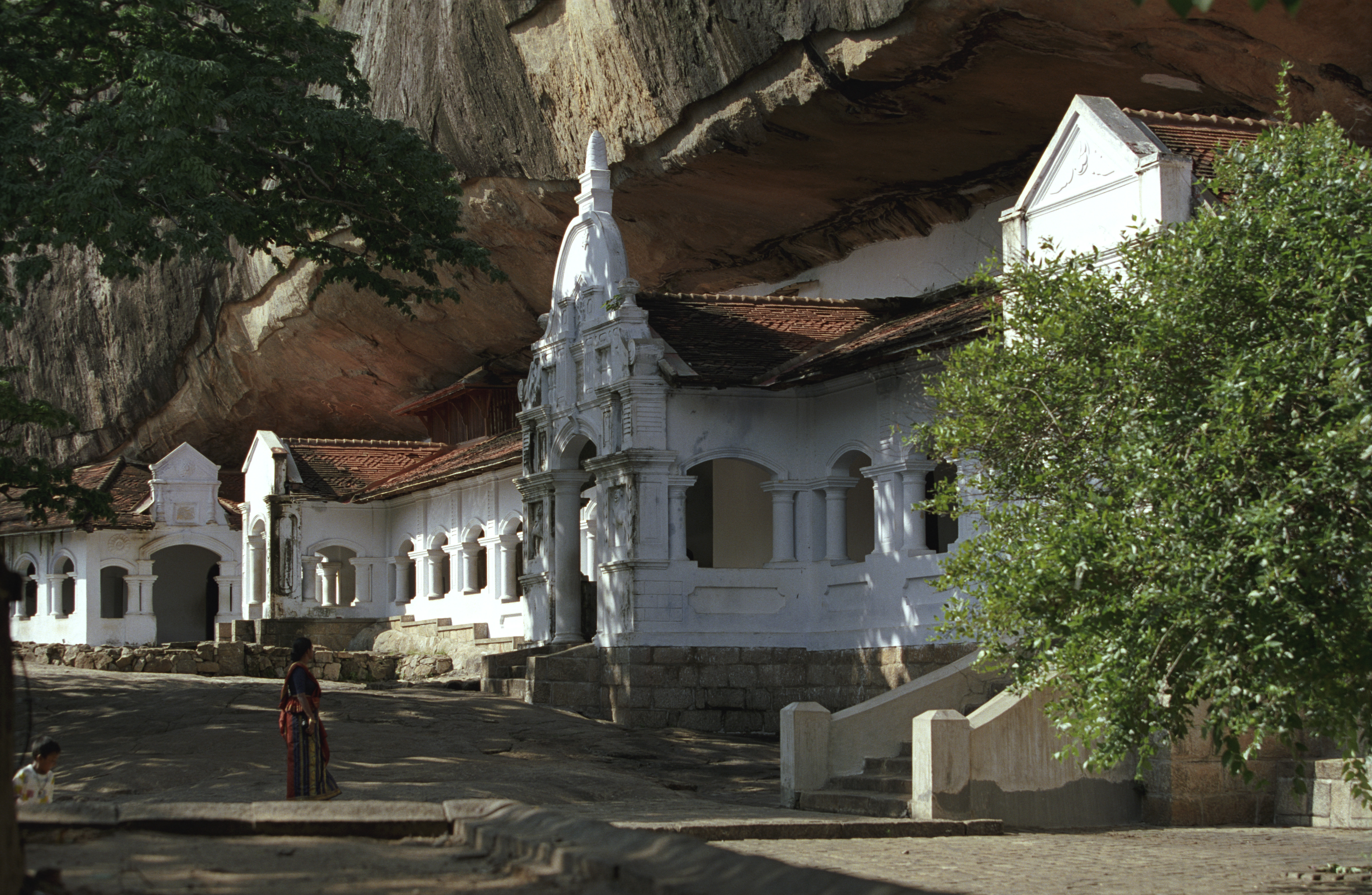 Dambulla, Cave Temples